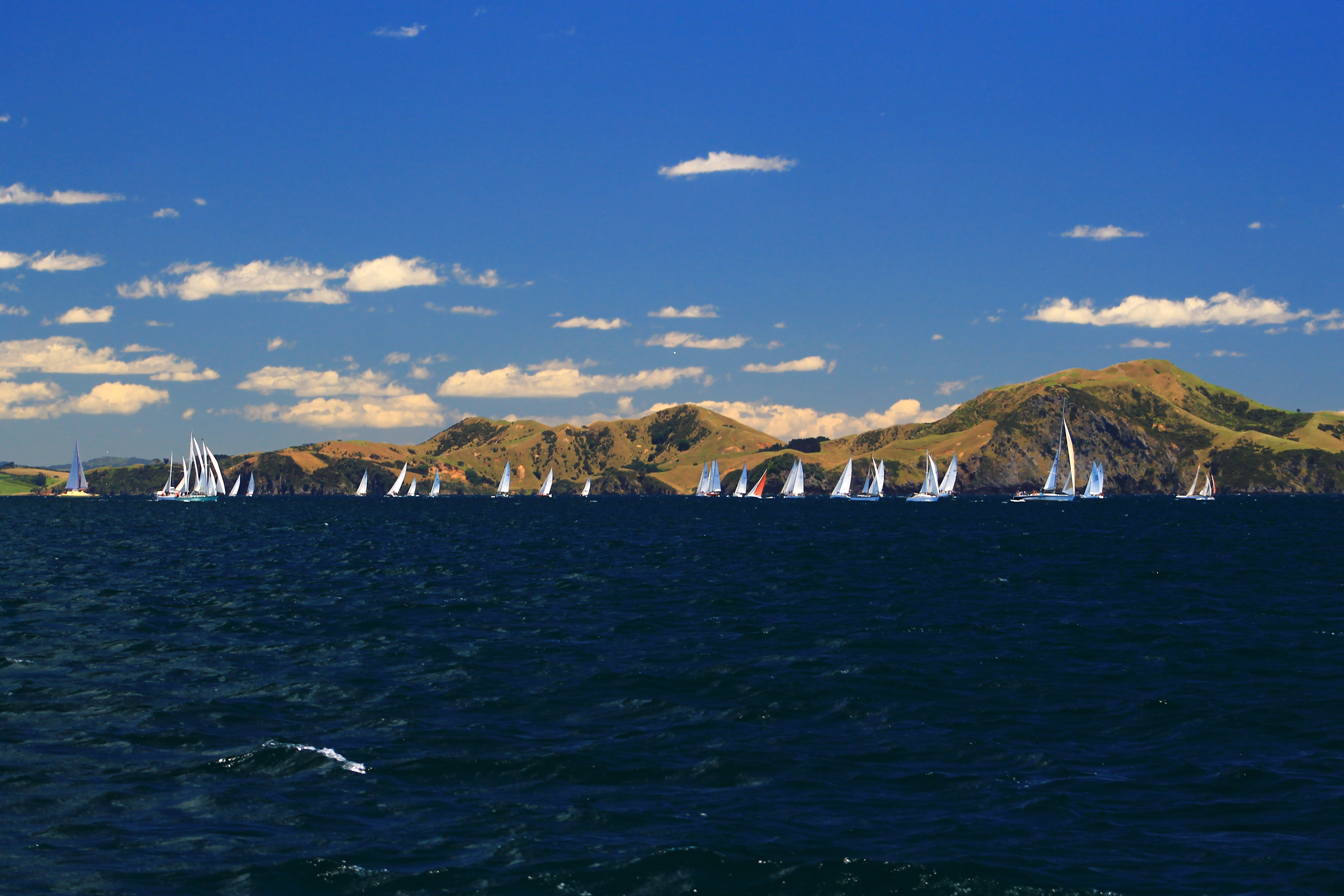 A yacht race in progress with the Purerua Peninsula in the background